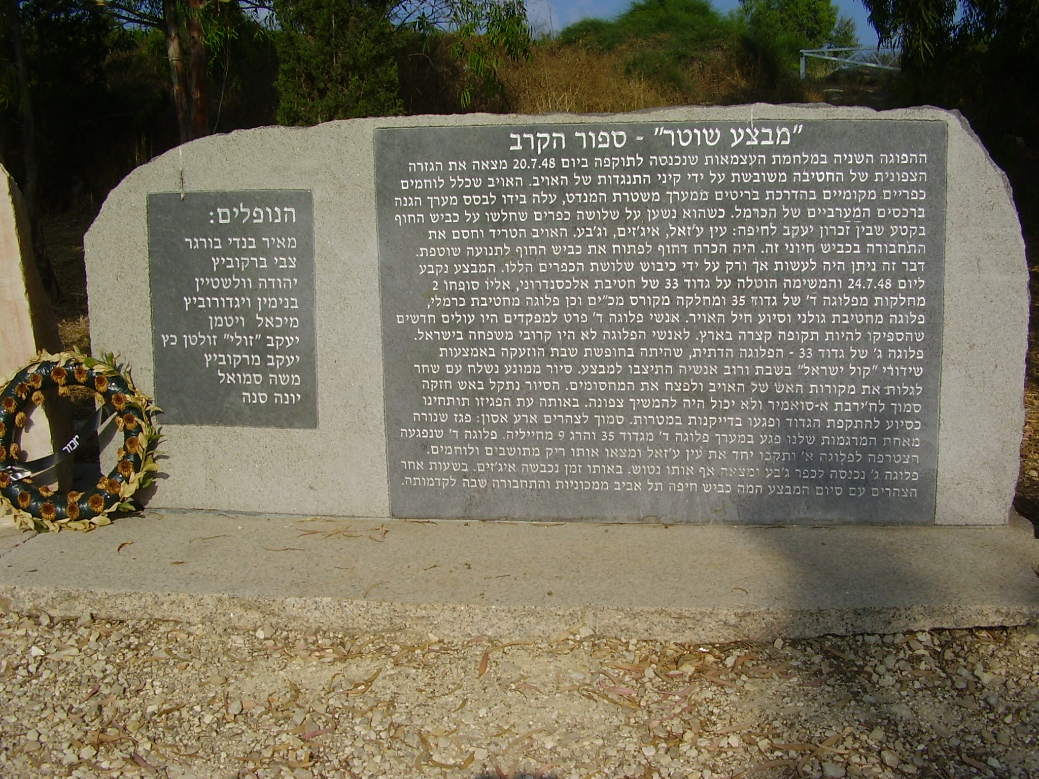 Alexandroni Brigade memorial in Ein Ayala